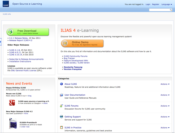 Screenshot of the ILIAS homepage at